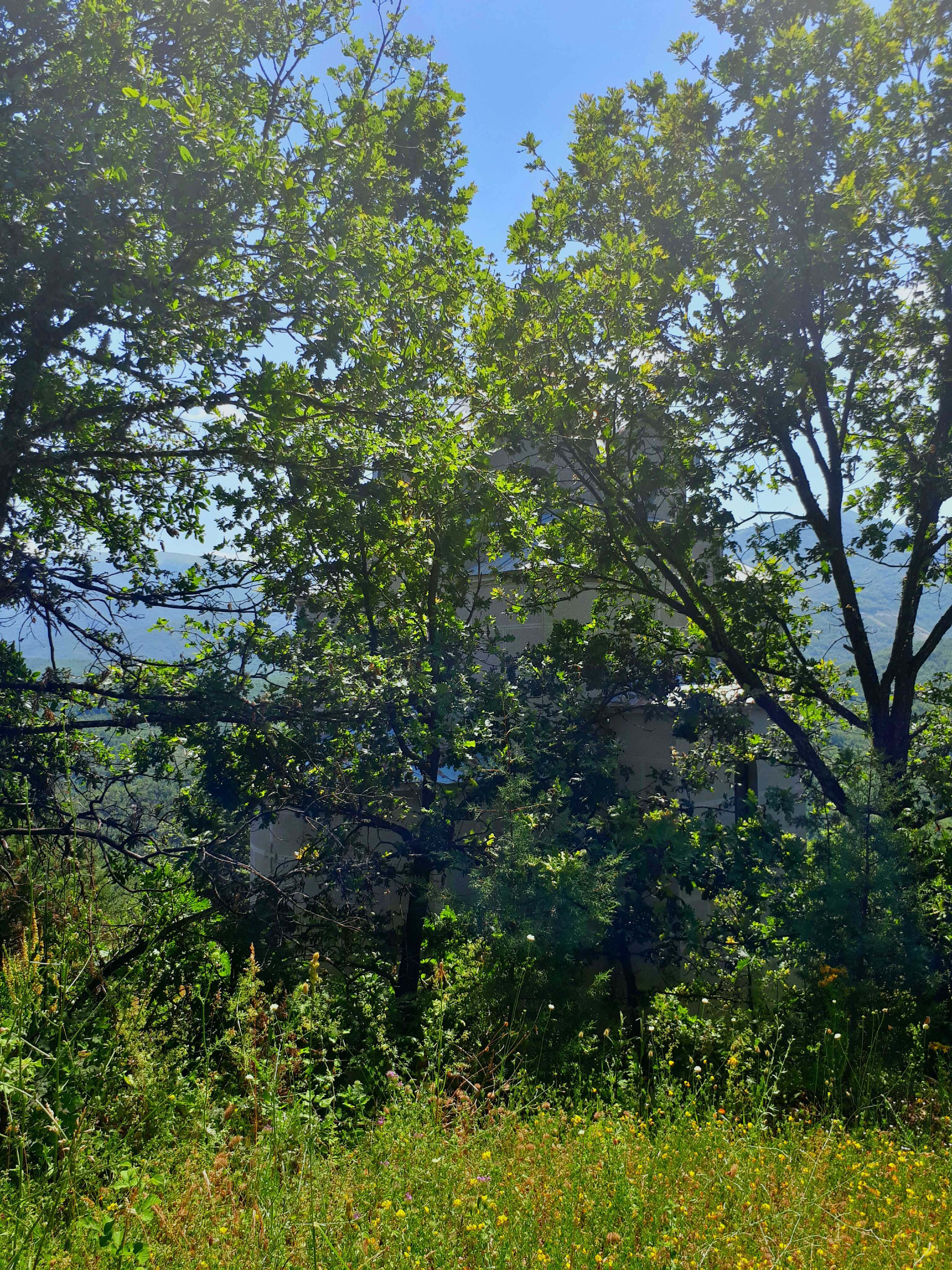 Memorial chapel in Gorni Manastirec, Macedonia